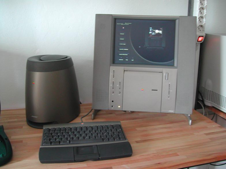 A Twentieth Anniversary Macintosh computer (right), a subwoofer (left), and a keyboard (front).